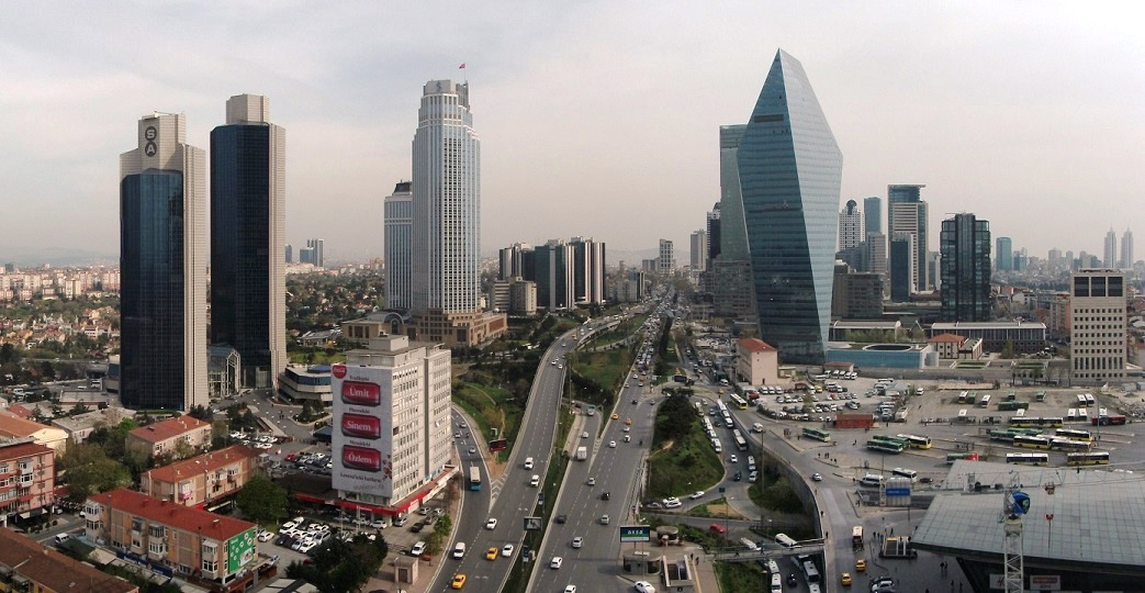 Levent business centers in Istanbul.